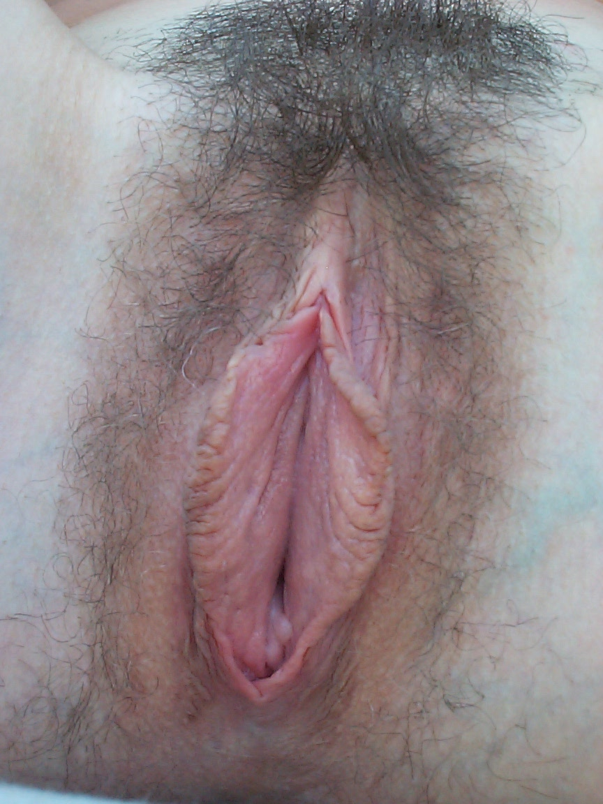 Vulva and pubic hair. Studio shot. Model: Titti